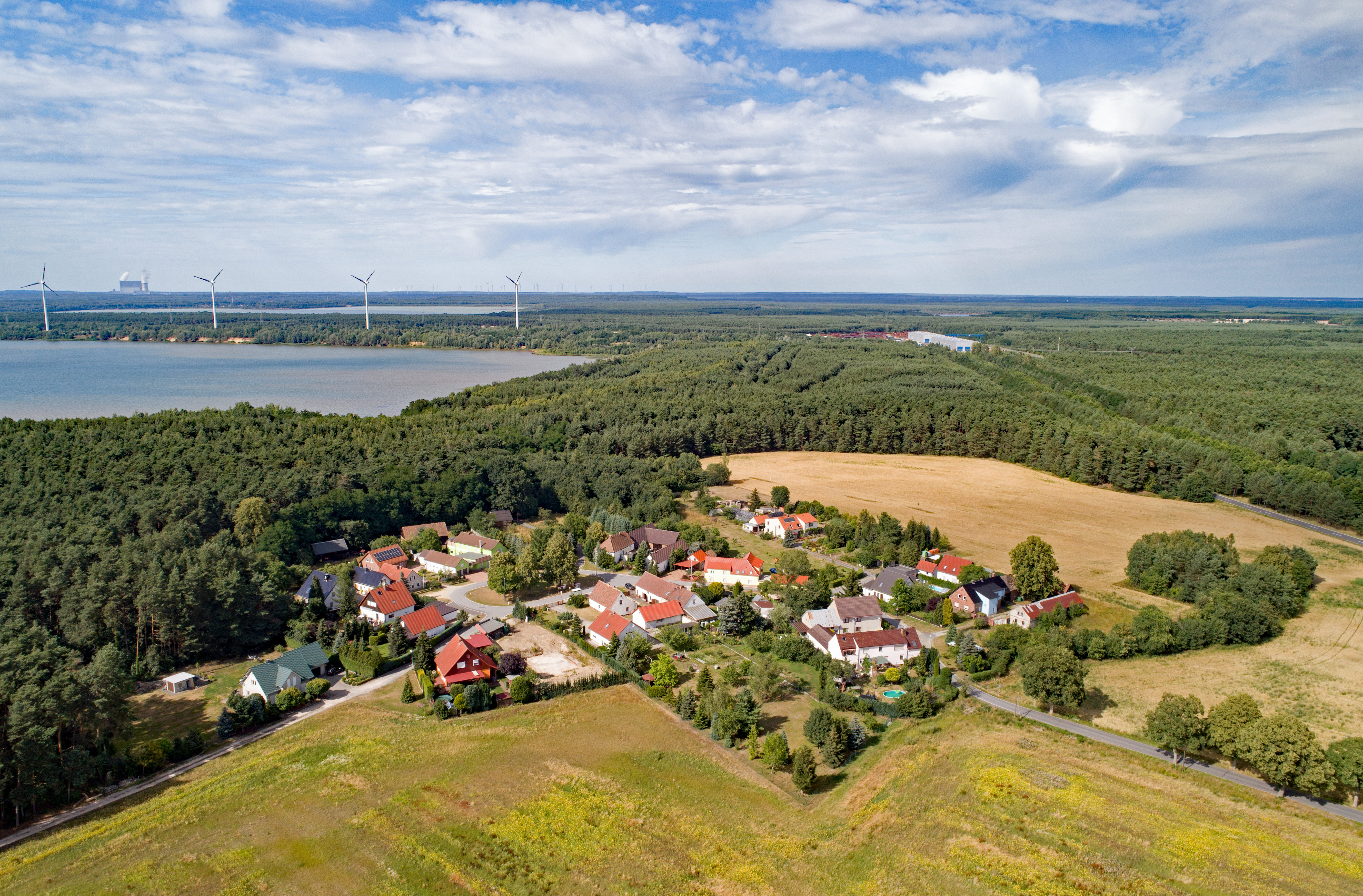 Tiegling (Lohsa, Saxony, Germany) Hornjoserbsce: Powětrowy wobraz Tyhelka